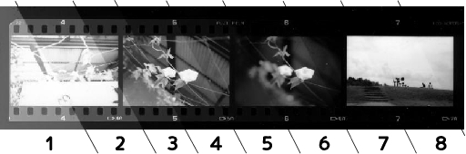 Example of test for making contact sheet / print in the dark room.